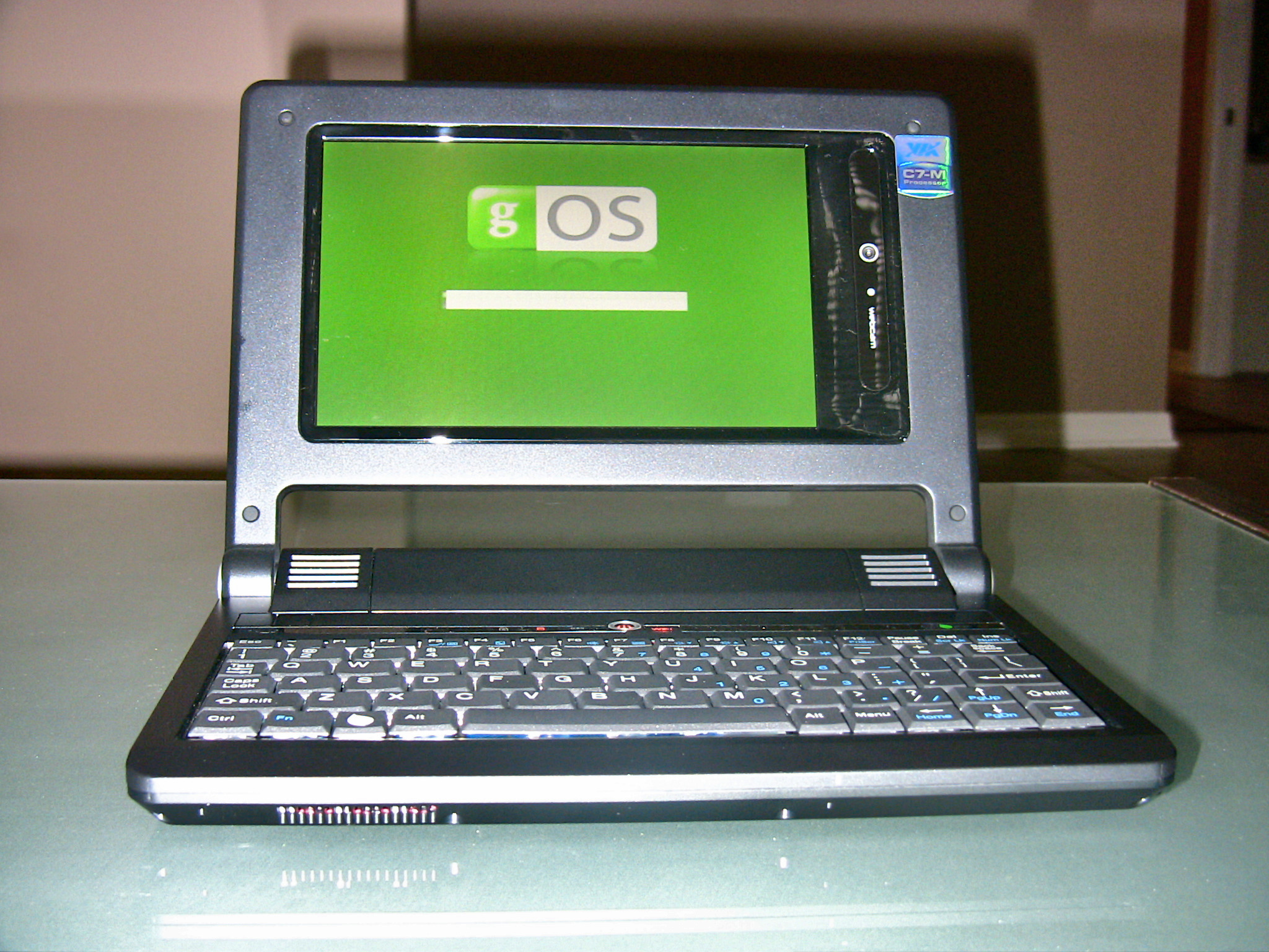 Everex's CloudBook is based on NanoBook design. Everex's CloudBook, a low cost computer that falls into the newly defined category of netbooks. CloudBook.